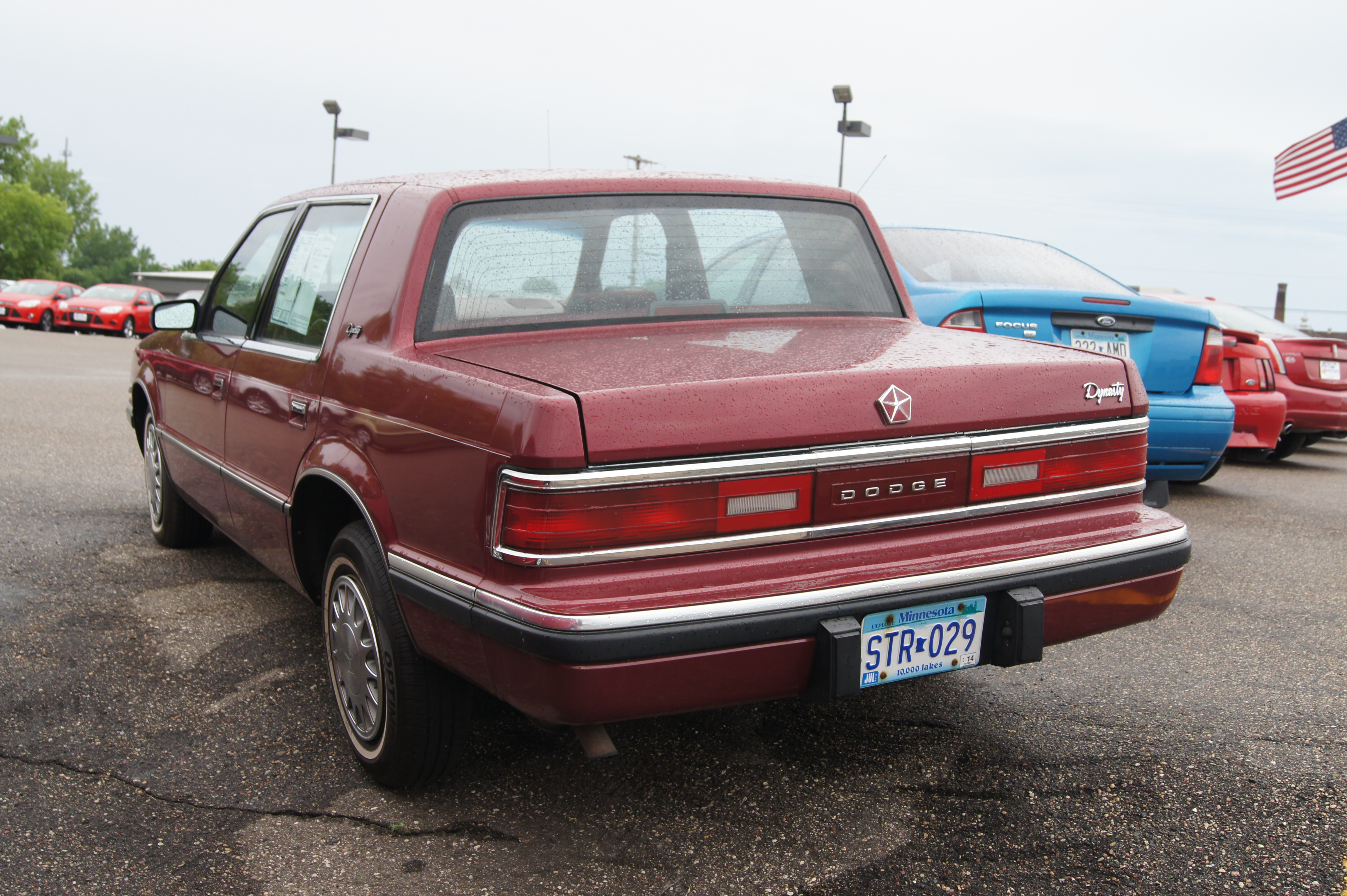 I bought my 2005 Dodge Magnum RT from Walser Chrysler Dodge in Hopkins. It came with free oil changes for life. I used to have relatives near the dealership that I would visit. They have all moved away, so now I just try to coordinate some car spotting for the trip. More Car Pictures